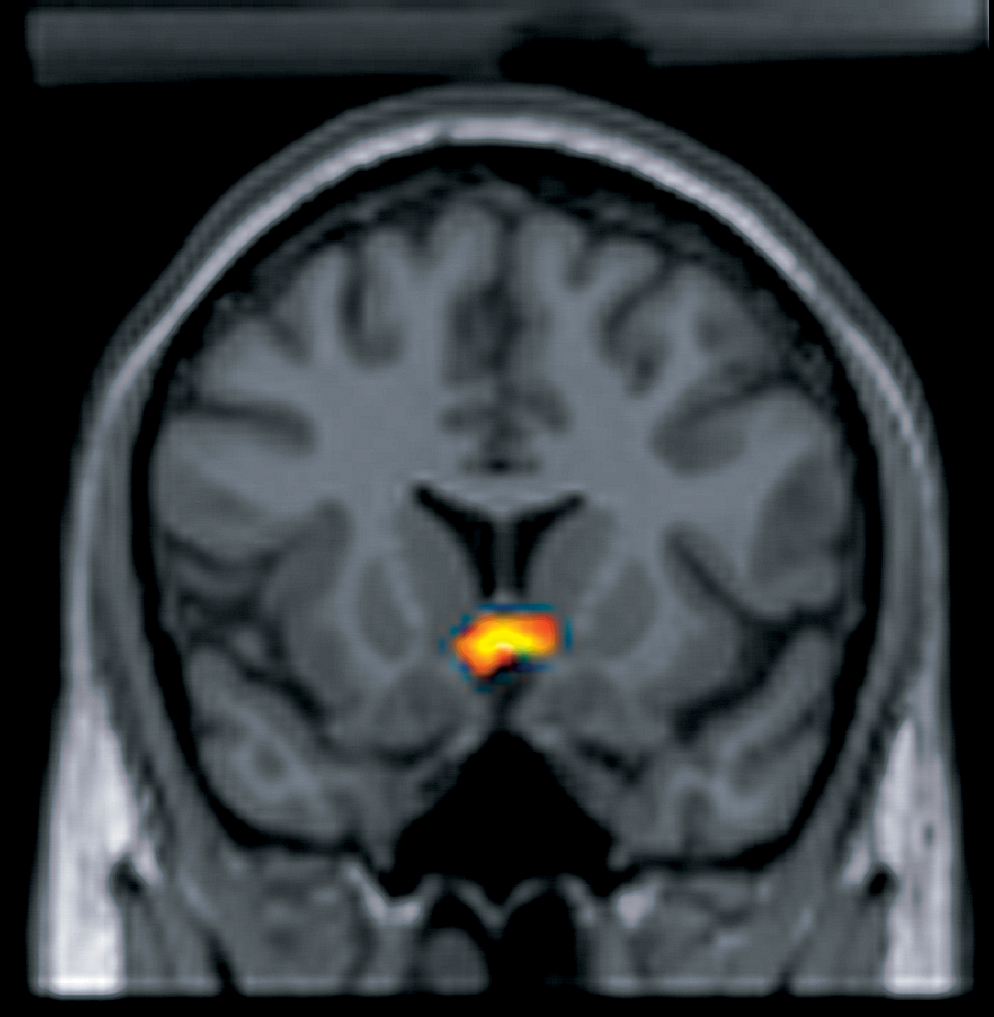 Rewarding the Brain. The ventral midbrain is active when humans receive an unpredictable juice reward. Monetary rewards, although defined by cultural agreement, also engage the same subcortical reward processing structures.